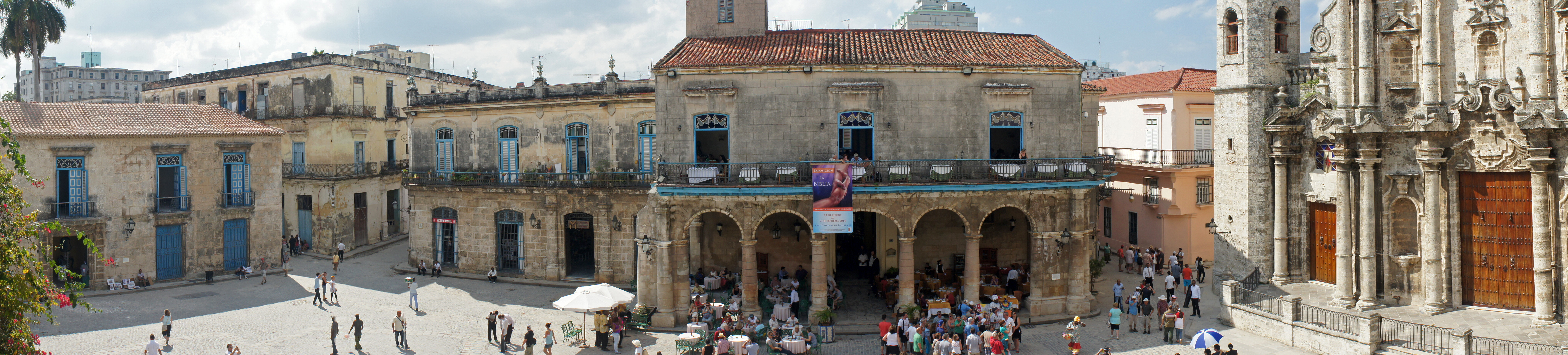 Panoramic view of Cathedral square. The Cathedral of The Virgin Mary of the Immaculate Conception at the left